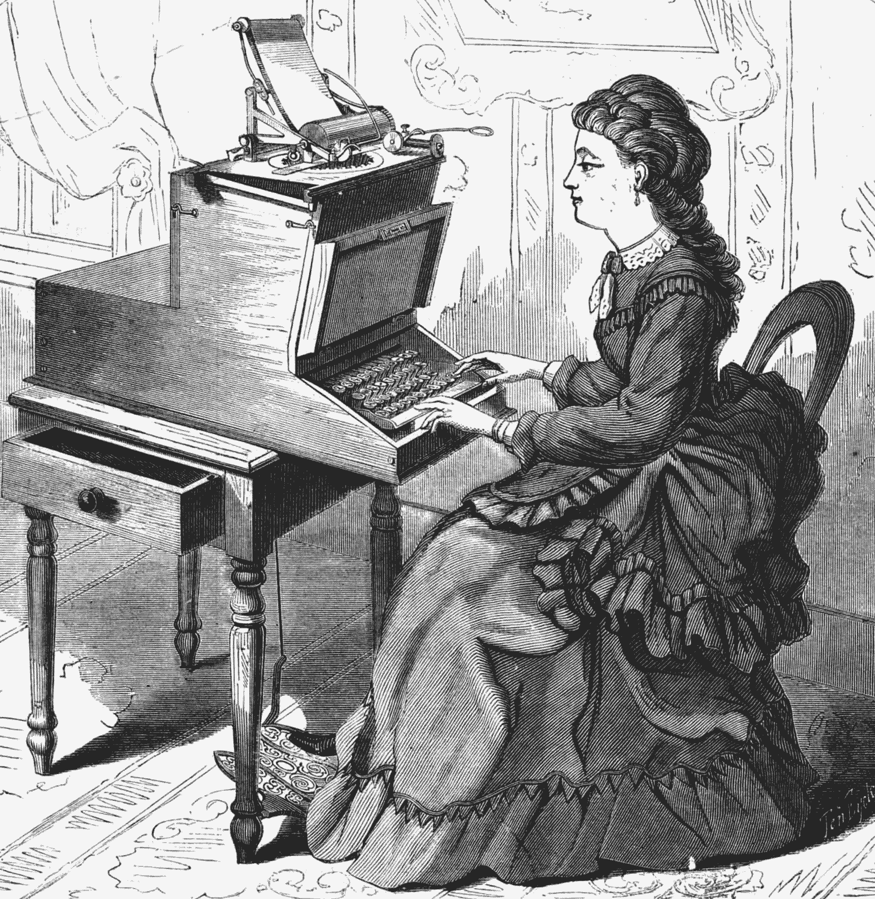 Young woman operating a Sholes and Glidden typewriter